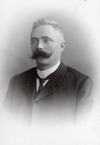 Parliamentarian from the Netherlands